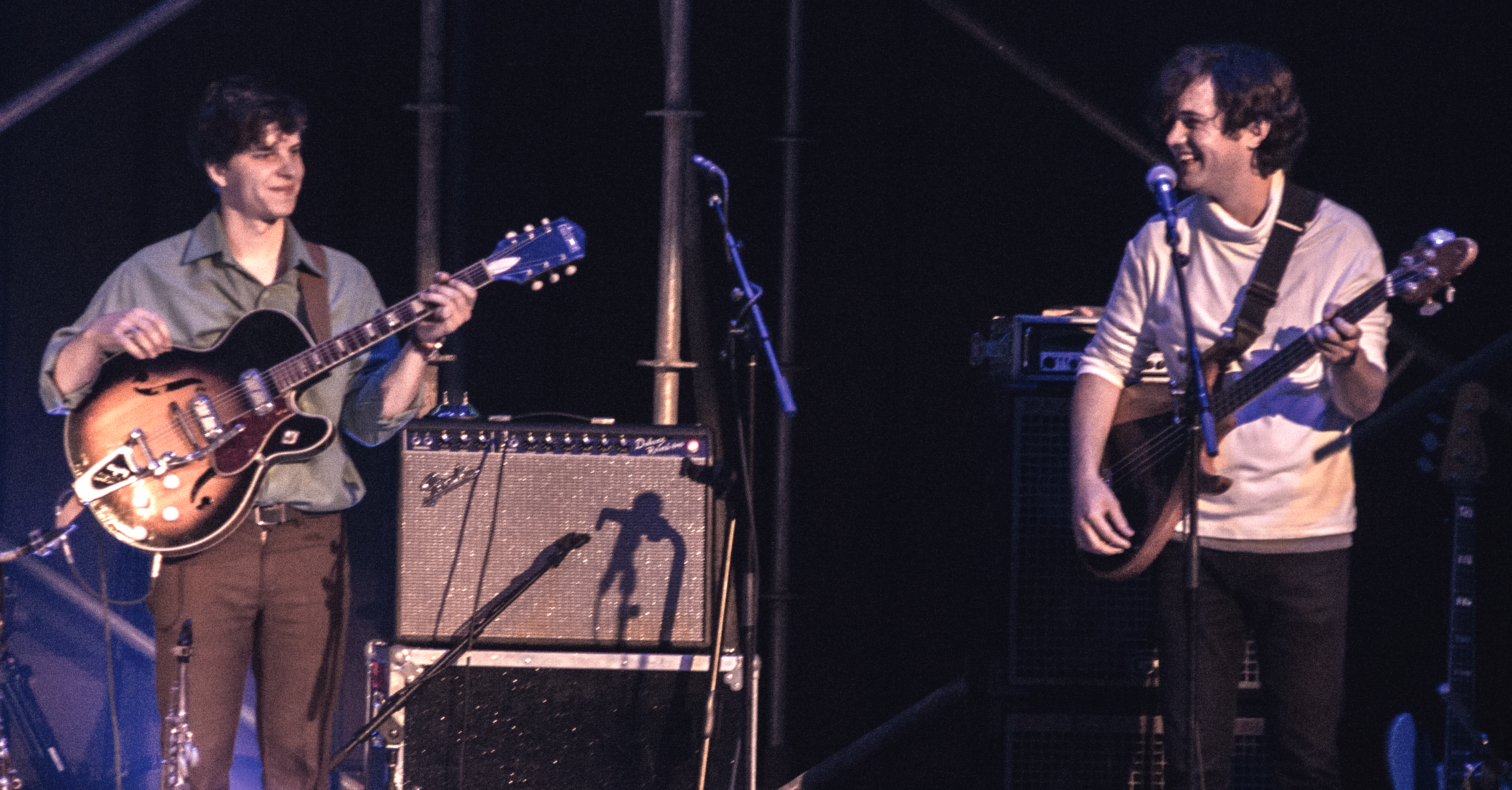 RedBull's 3DaysinTO at Massey Hall on October 20th, 2017 Shot by Mac Downey (@mac.all.mighty)